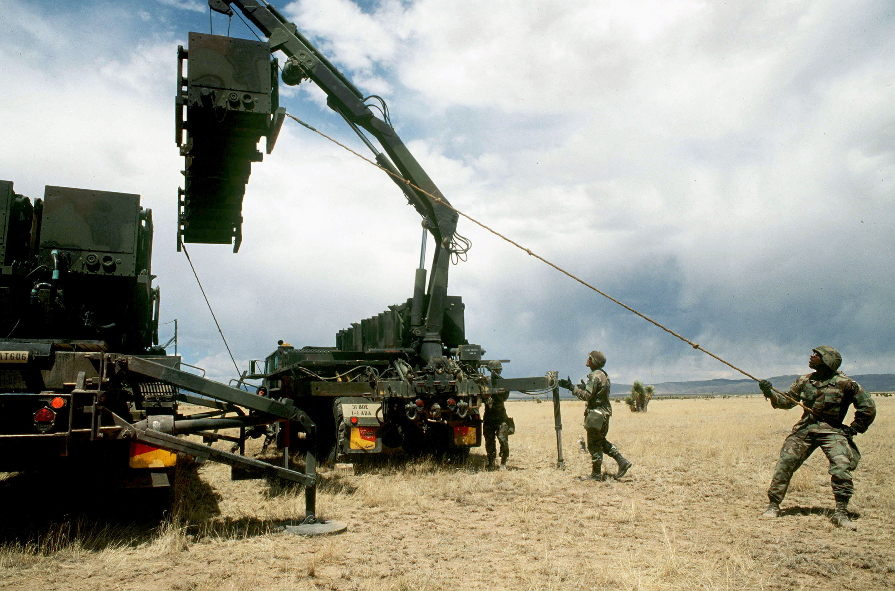 Soldiers from the 31st Air Defense Artillery Brigade load a Patriot missile onto a transfer vehicle at McGregor Test Range, N.M., during Exercise Roving Sands 97 on April 18, 1997. More than 20,000 service members from all branches of the armed forces of the U.S., Canada, Germany, and the Netherlands are participating in Exercise Roving Sands 97. The exercise is designed to refine their skills in operations using an integrated air defense network of ground, missile and radar early warning systems combined with tactical fighter and bomber aircraft operating in a simulated high-threat environment. The Patriot, used for land-to-air defense, and the soldiers are deployed from Alpha Battery, 1st Regiment, 1st Battalion, Fort Bliss, Texas.